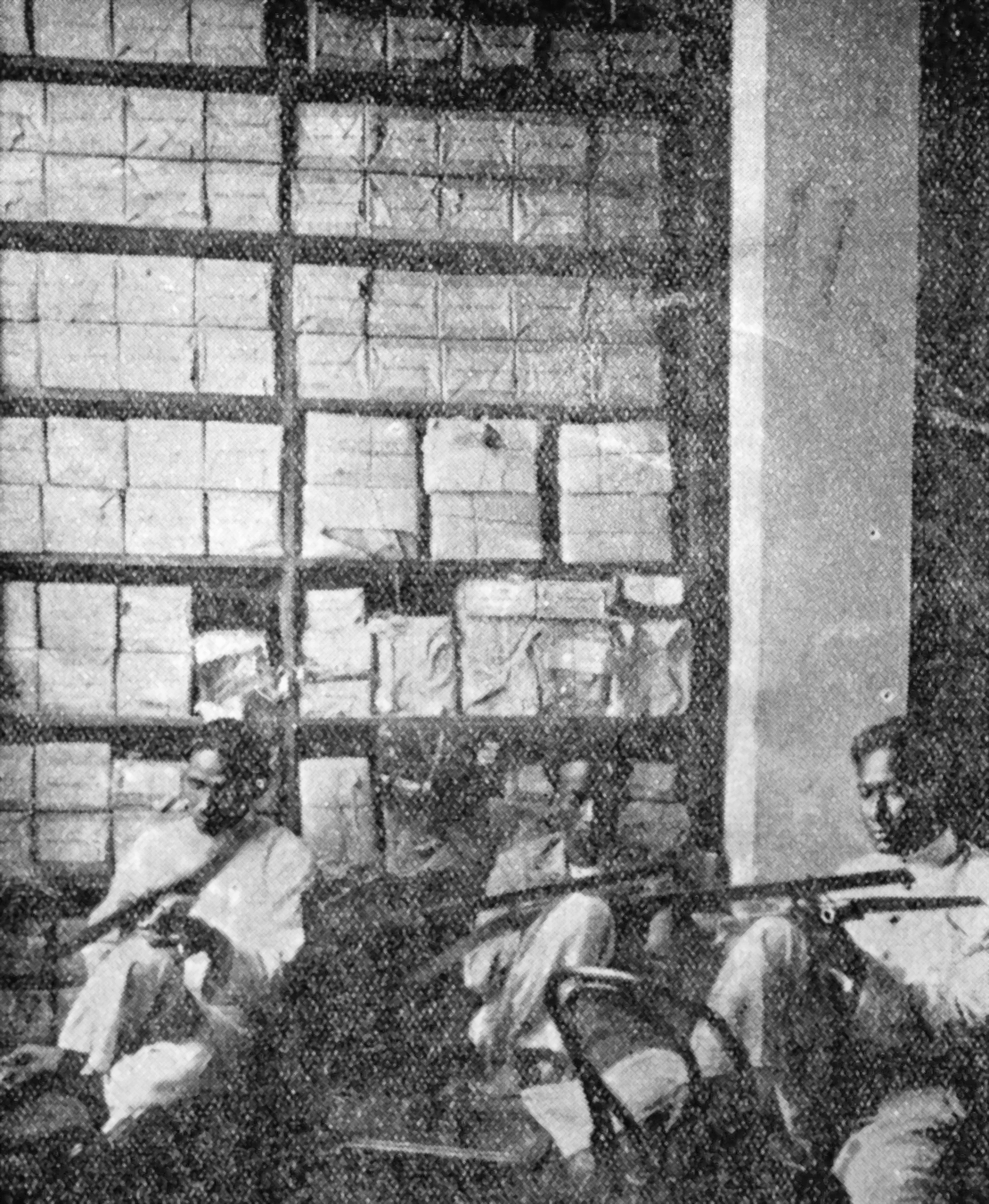 Copying of manuscripts at the Institut bouddhique de Phnom Penh, opened 1930 as part of the National Library.